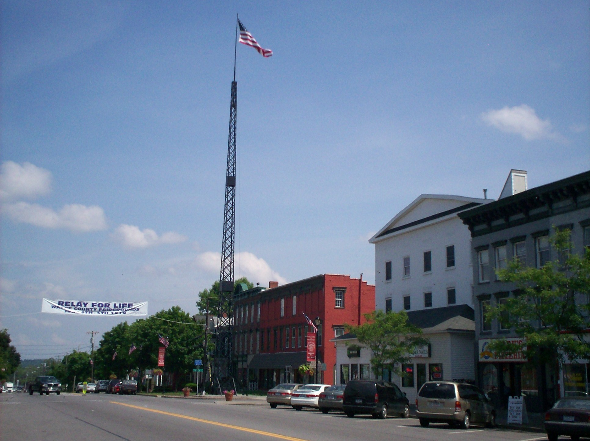 View of downtown Palmyra, New York looking east along East Main Street (State Route 31